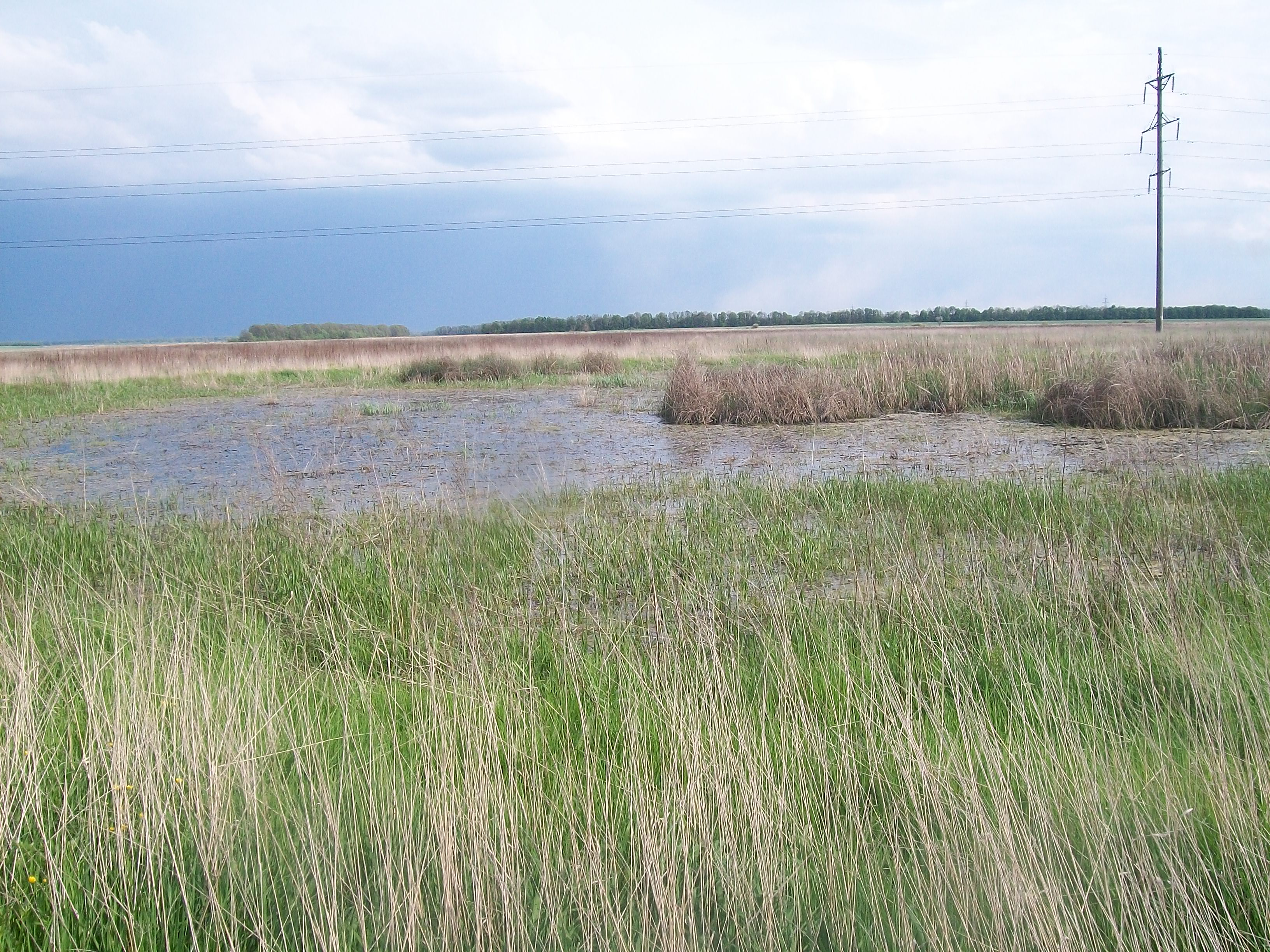 xxxxxxxxxxxxxxxxxxxxxxx